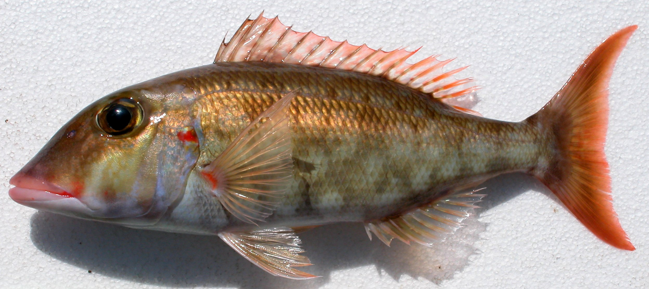 Lethrinus rubrioperculatus from off New Caledonia. Voucher specimen deposited in the collections of the Muséum National d'Histoire Naturelle, Paris, France, under registration number MNHN 2006-1325. Parasitological number MNHN JNC1122. Locality: Off Nouméa, New Caledonia, near Récif Le Sournois. Coordinates: 22°31' 30"S, 166°26'31"E.